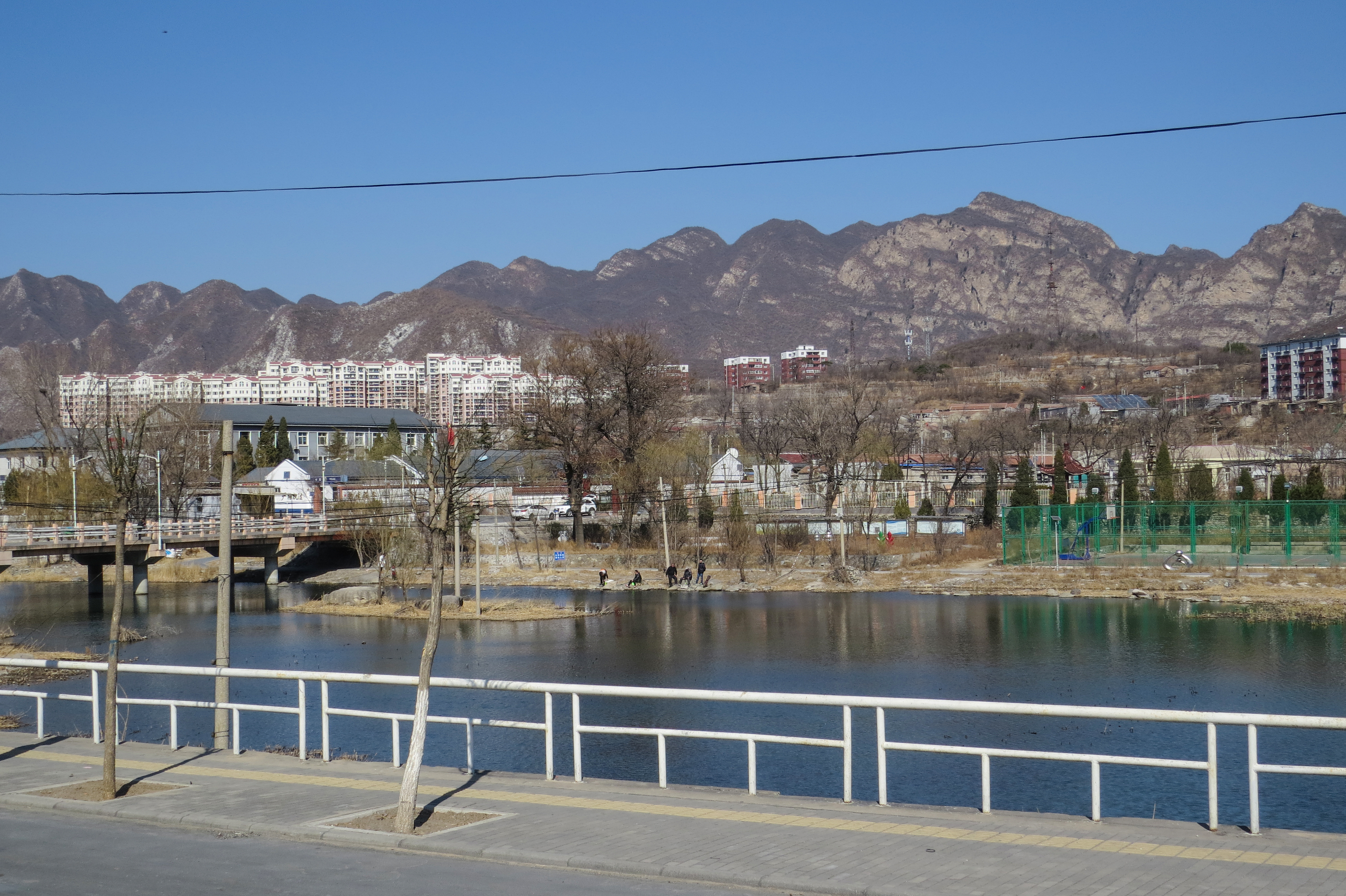 Taken on a 929 after leaving Luopoling.